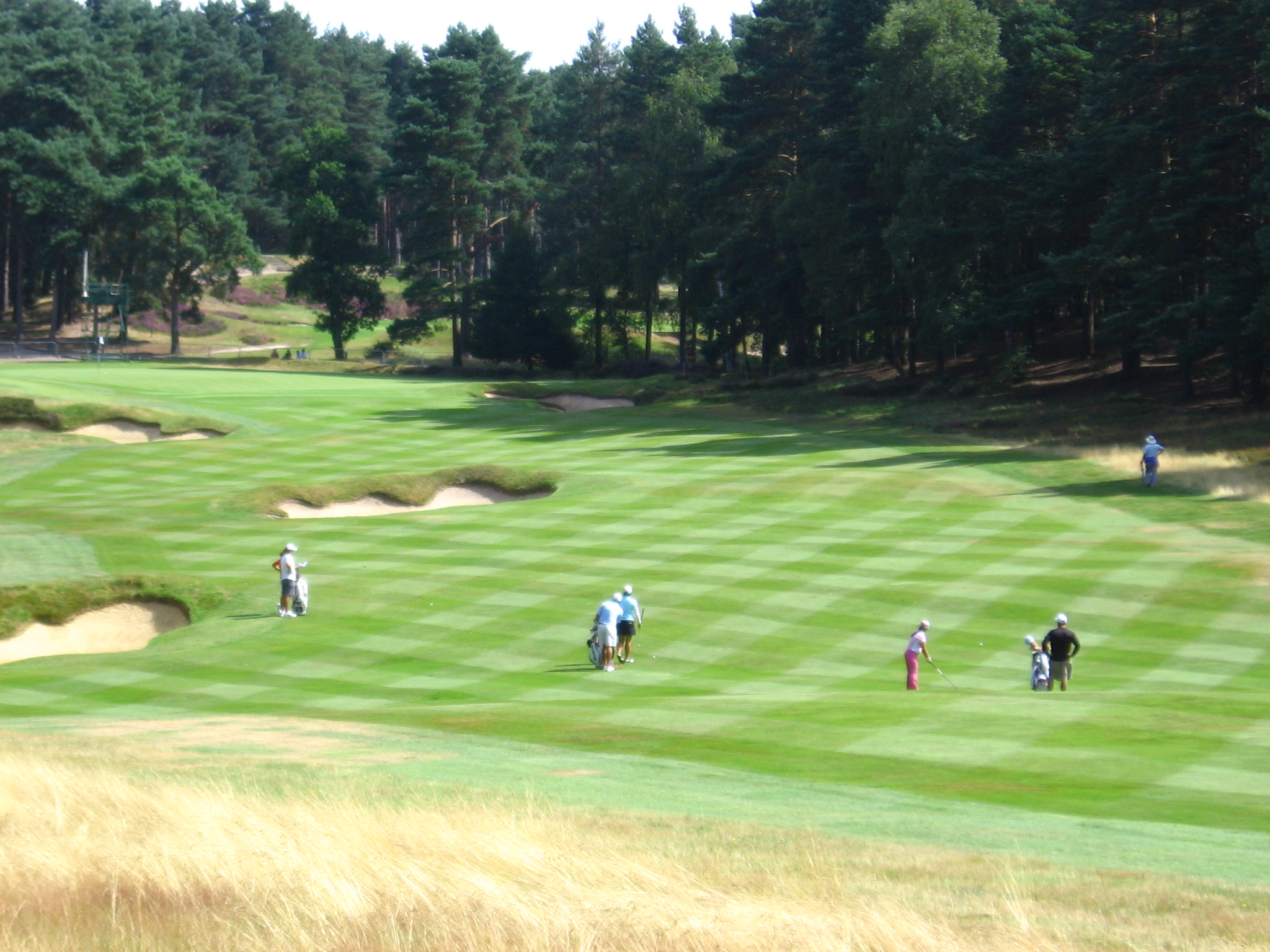 Fairway of the 10th hole as seen towards the green. 2008 WBO at Sunningdale, practice round.